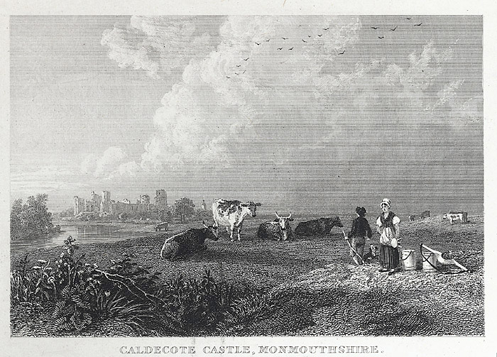 Two milk-maids in the foreground with Caldecote far in the background.